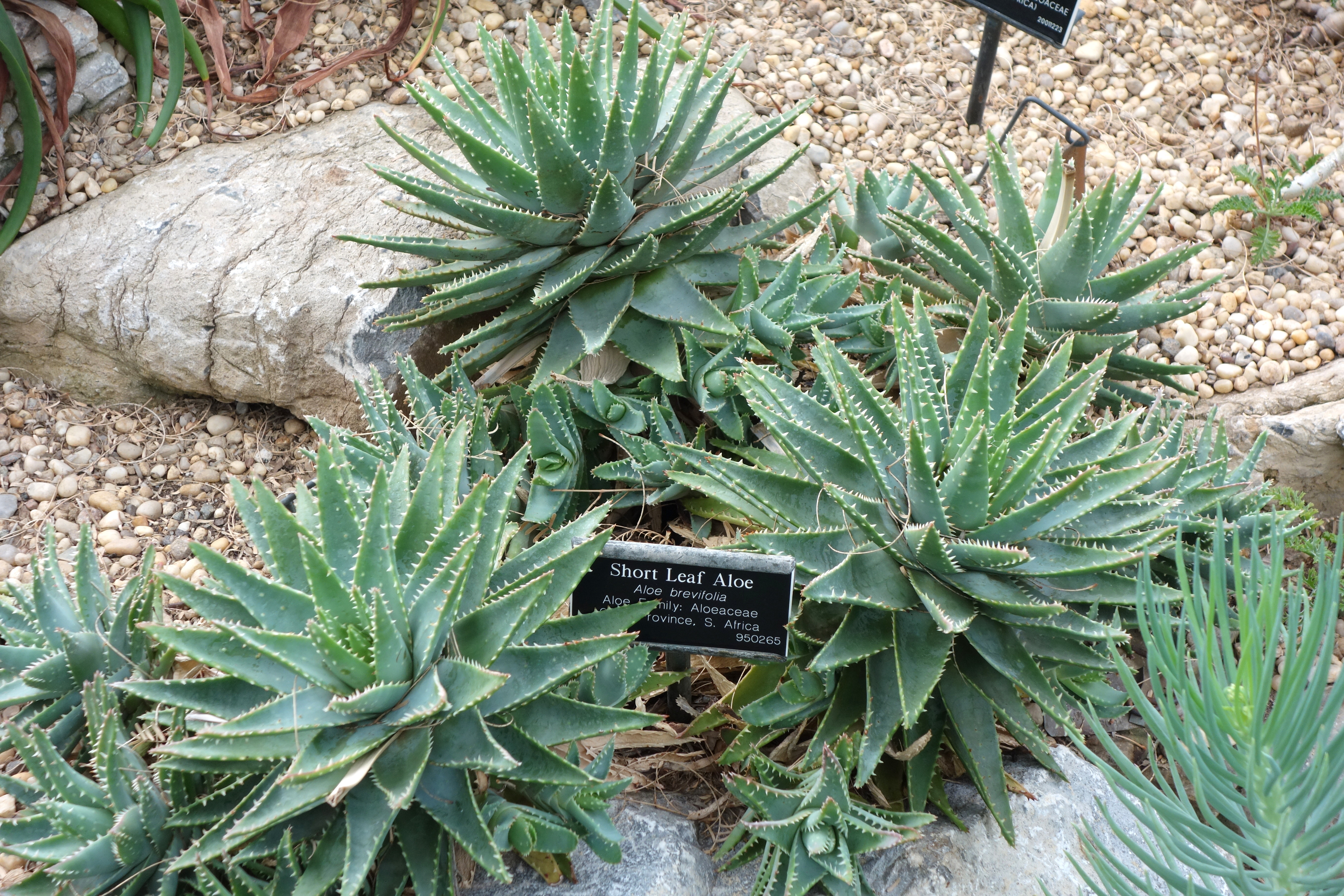 Botanical specimen in the Brooklyn Botanic Garden, Brooklyn, New York, USA.